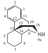 Morfinane structure